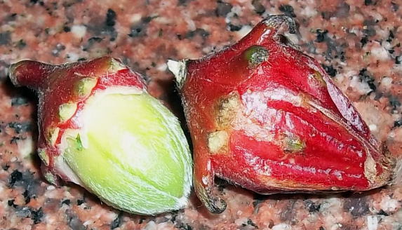 Roselle capsule showing inner thick walled fruit.